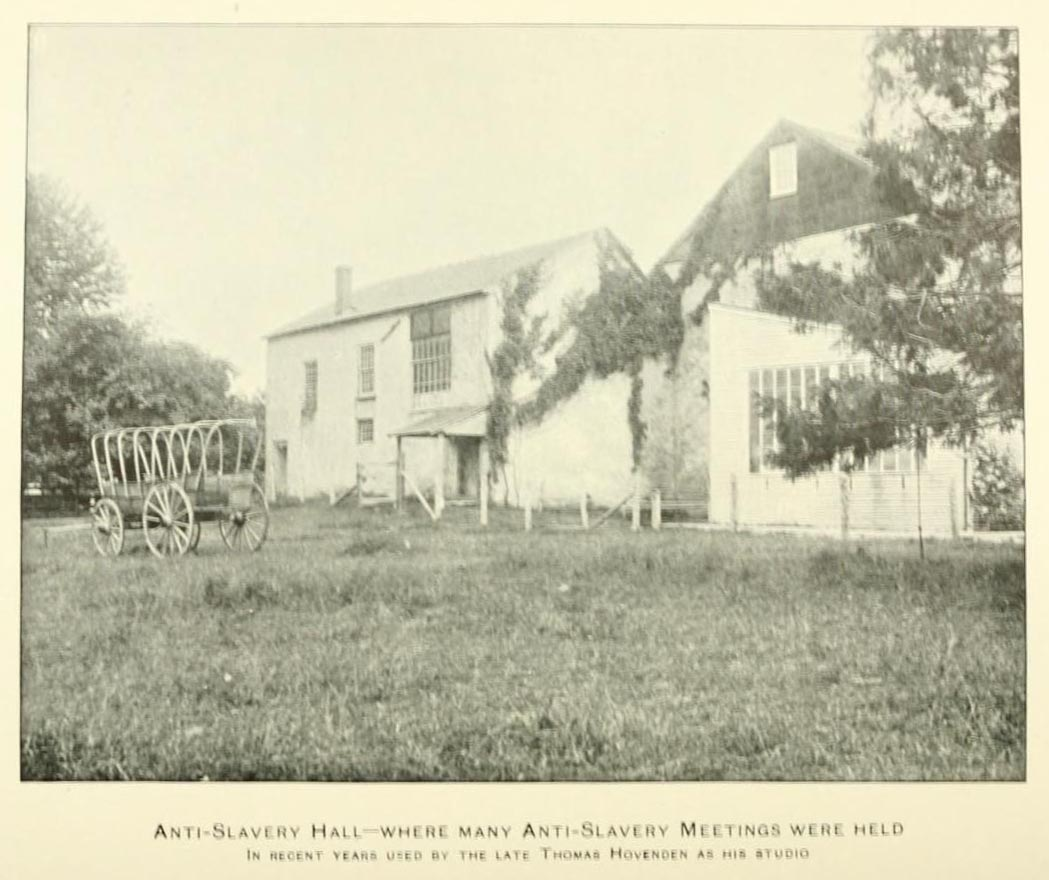 Photograph of Abolition Hall -- Germantown & Butler Pikes, Plymouth Meeting, Pennsylvania.